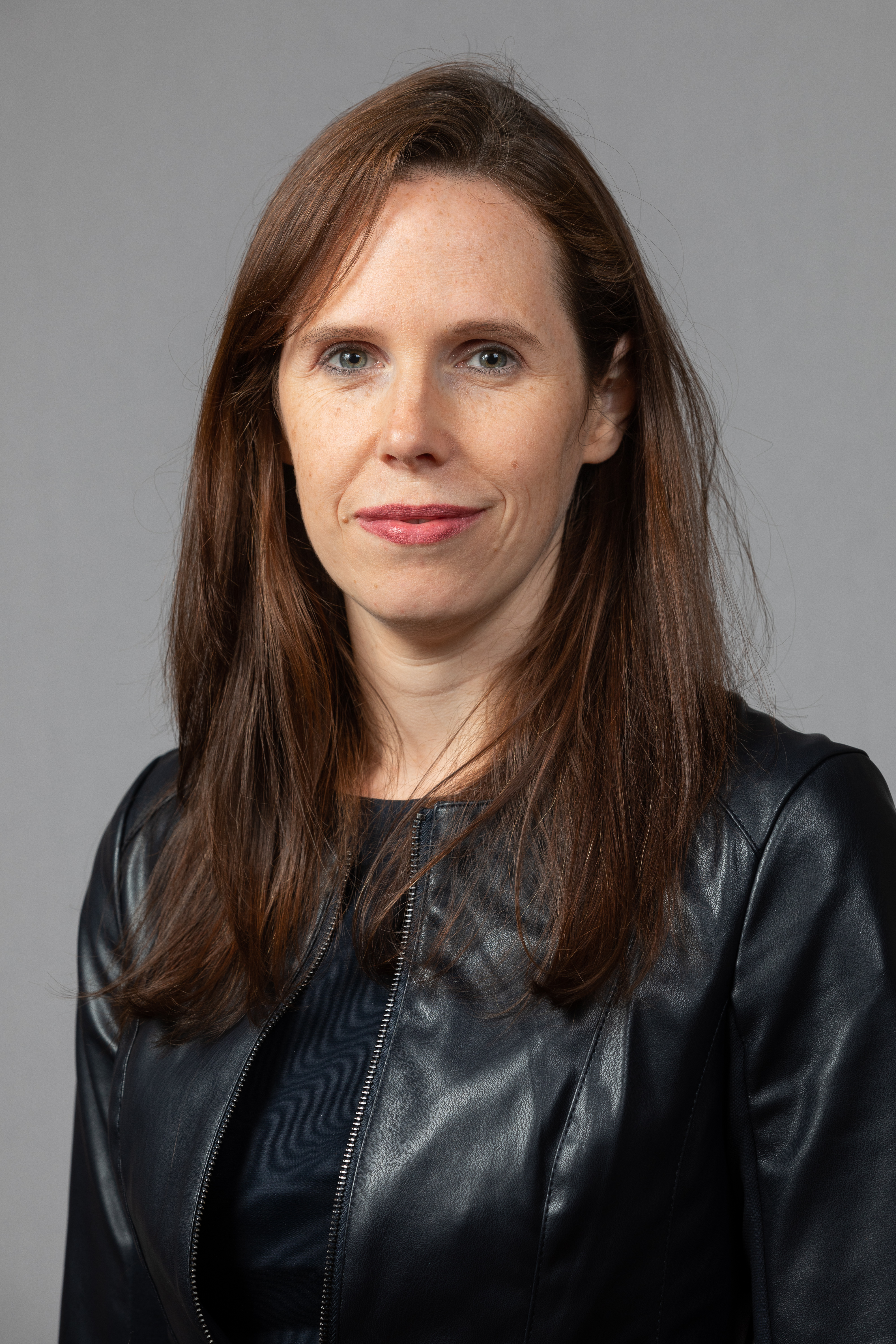 Sandra Funken, Landtag of Hesse, Wiesbaden, April 3rd, 2019